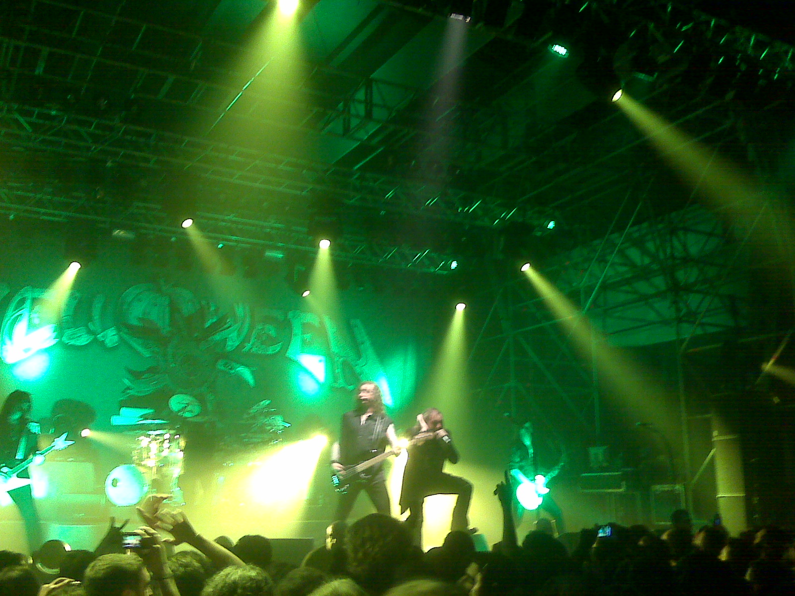 Helloween playing in Rome in 2011.